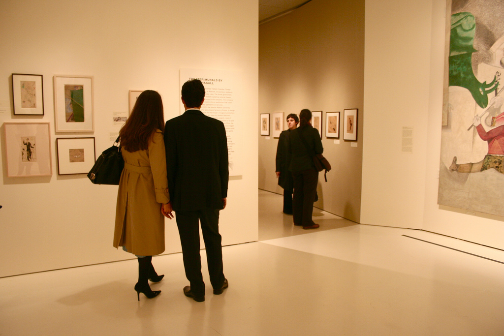 Chagall Exhibition at The Jewish Museum New York